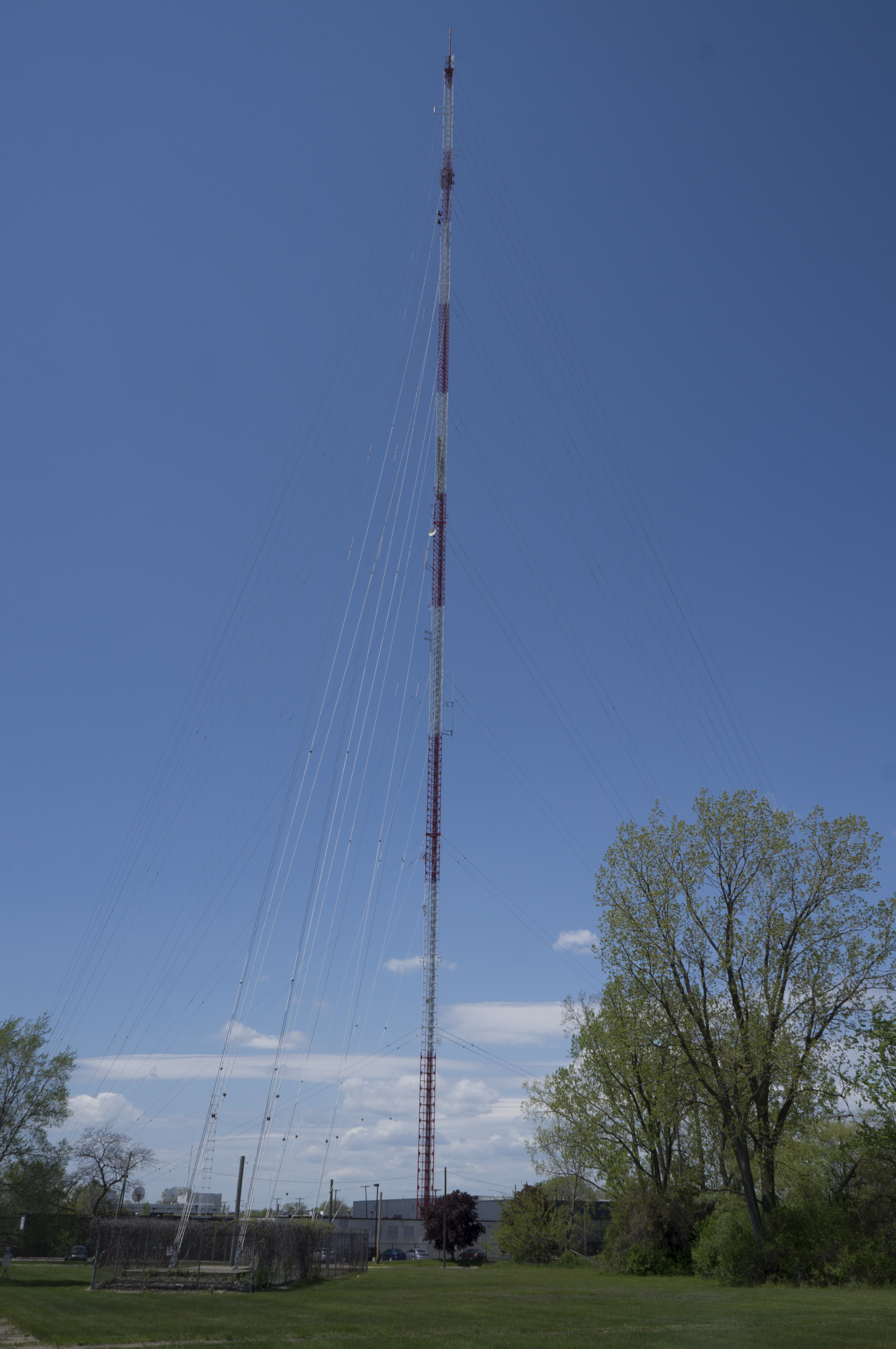 Motower Multilink Corporation's radio tower in Royal Oak Charter Township